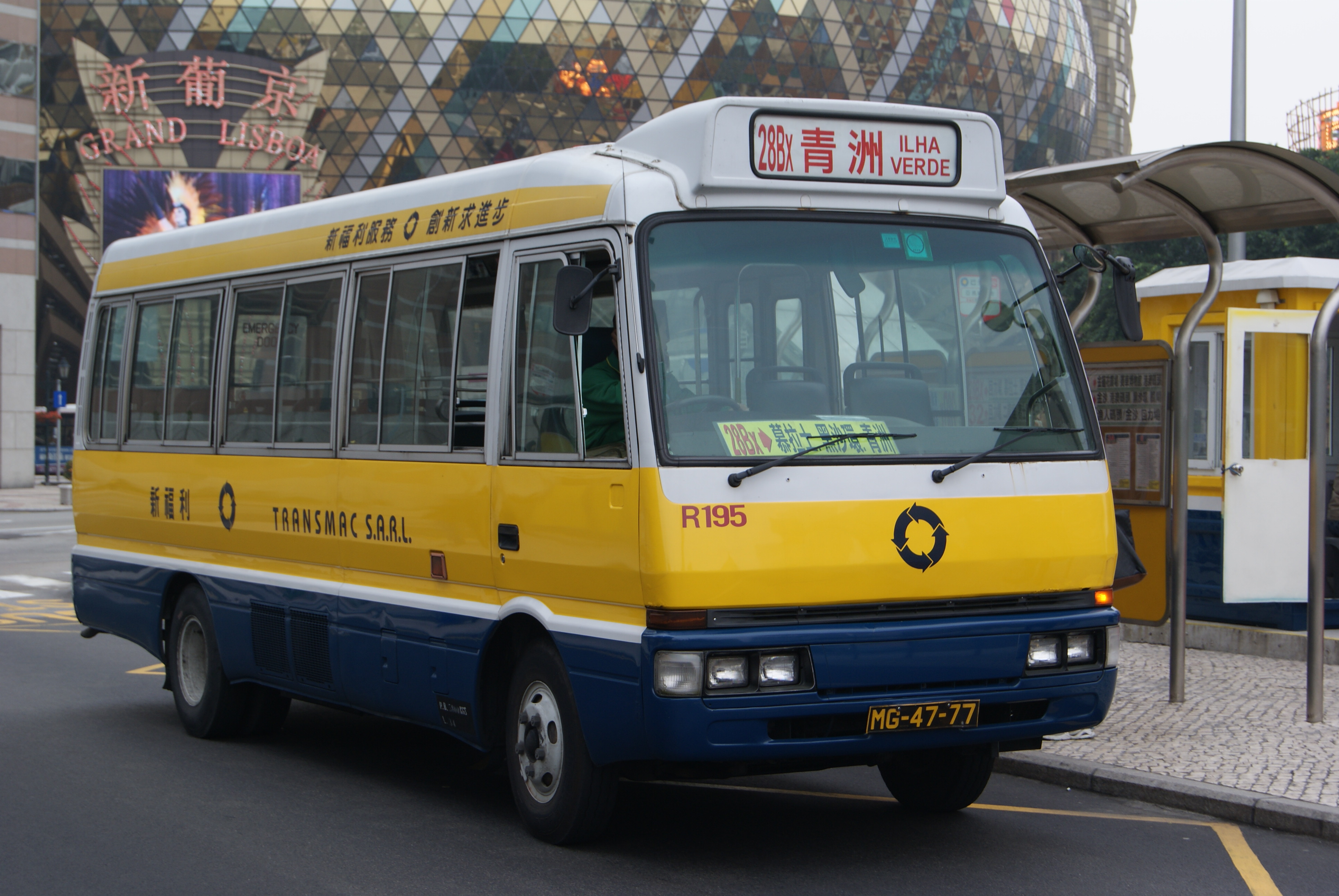 Transmac R195 at Line 28BX